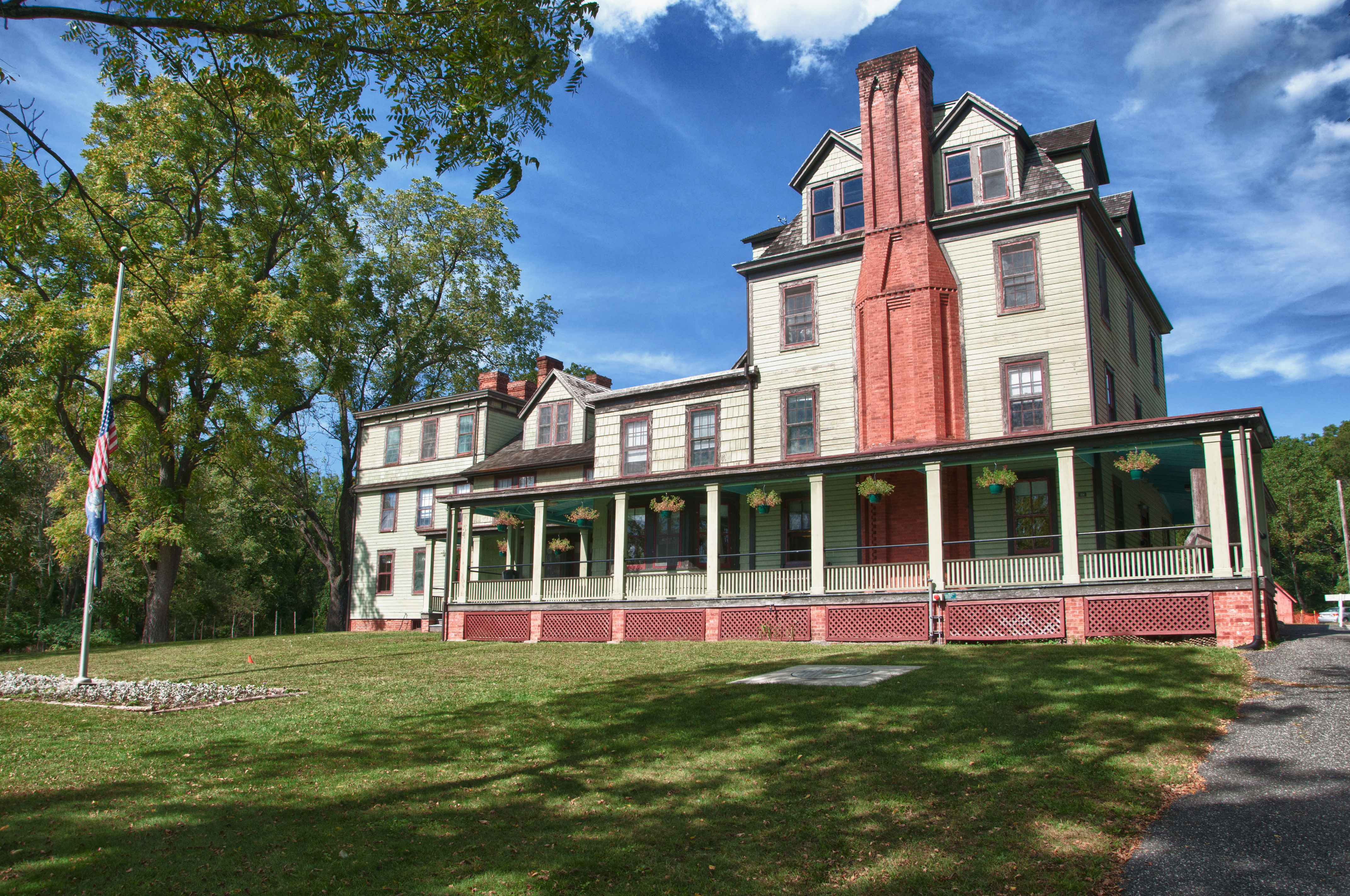 Wyandanch Club Historic District The 1751 Caleb Smith House, originally built as a two-story farmhouse and later converted into a 44-room clubhouse for the Wyandanch Club